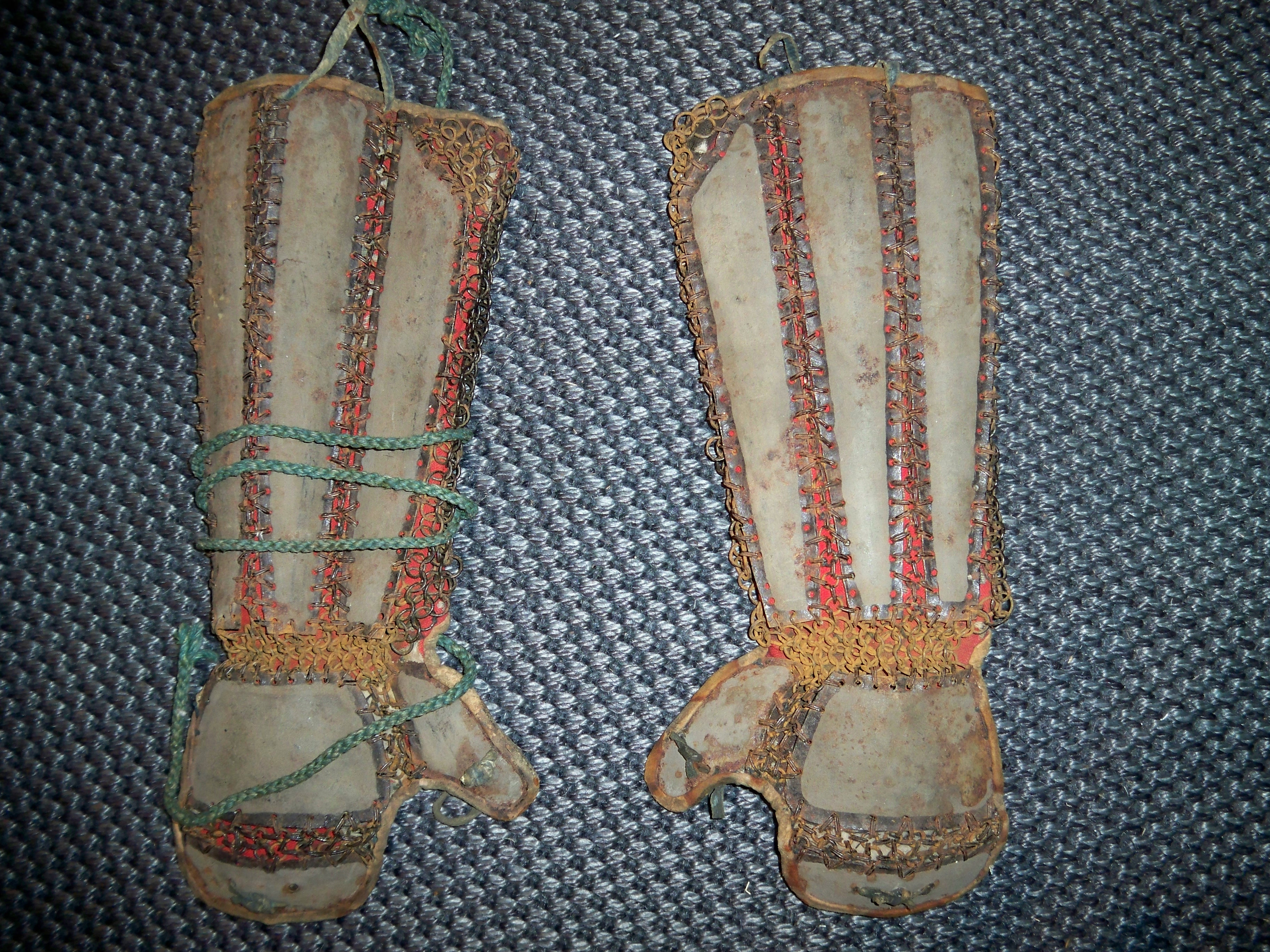 Antique Edo period Japanese (samurai) half sleeve or han kote. Iron armor plates connected together by chain armor "kusari and sewn to cloth.